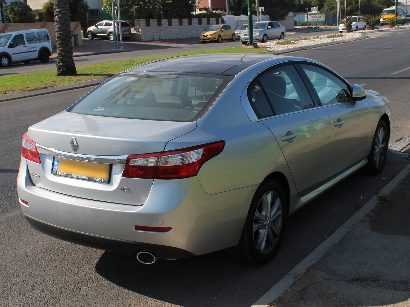 Back of Renault Latitude